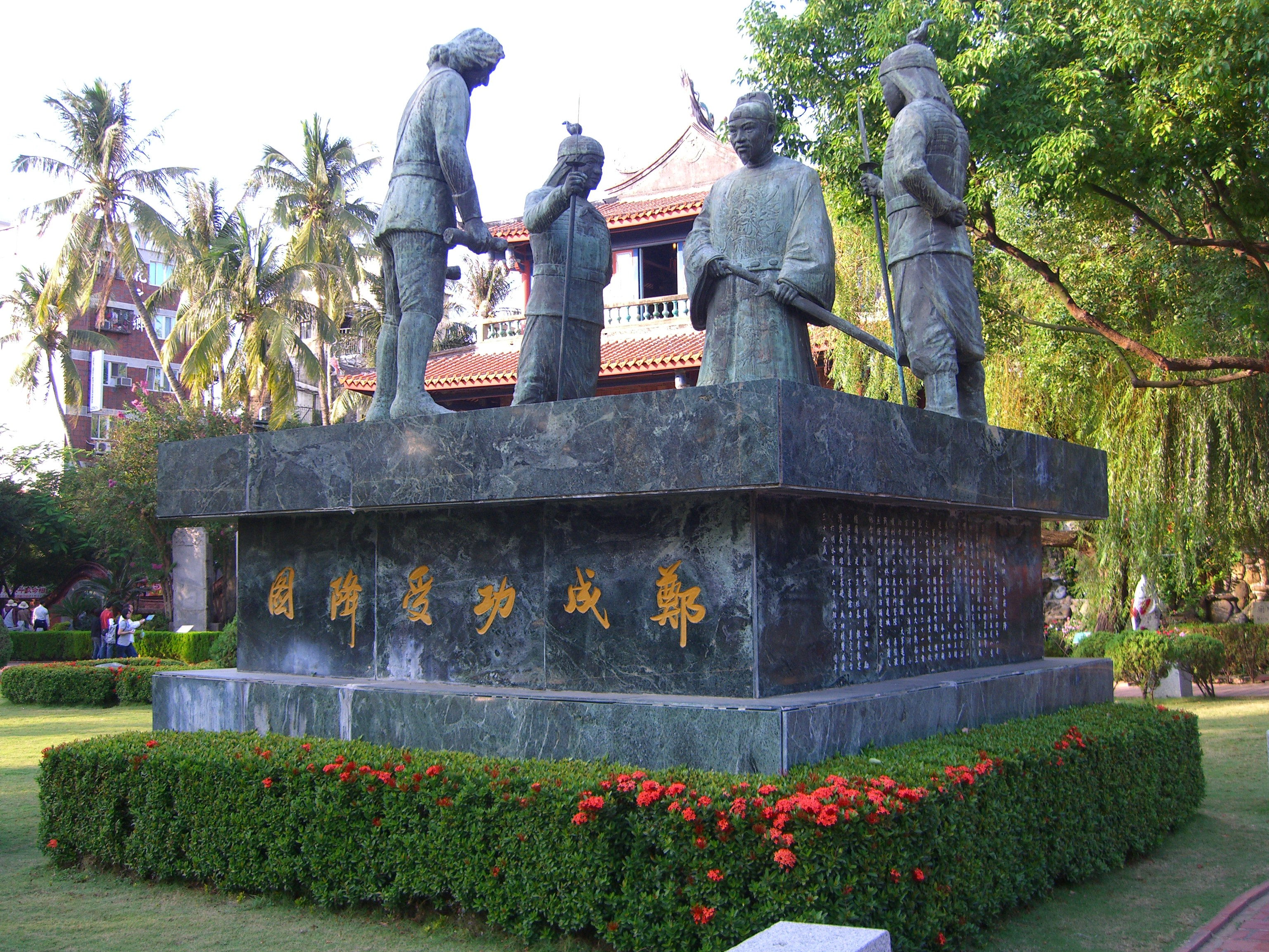 The Chihkan Tower 赤崁樓